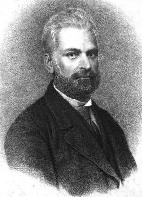 Portrait of George Sion from 101 fables published by Imprimeria Naţională intr. C. N. Rădulescu in 1869